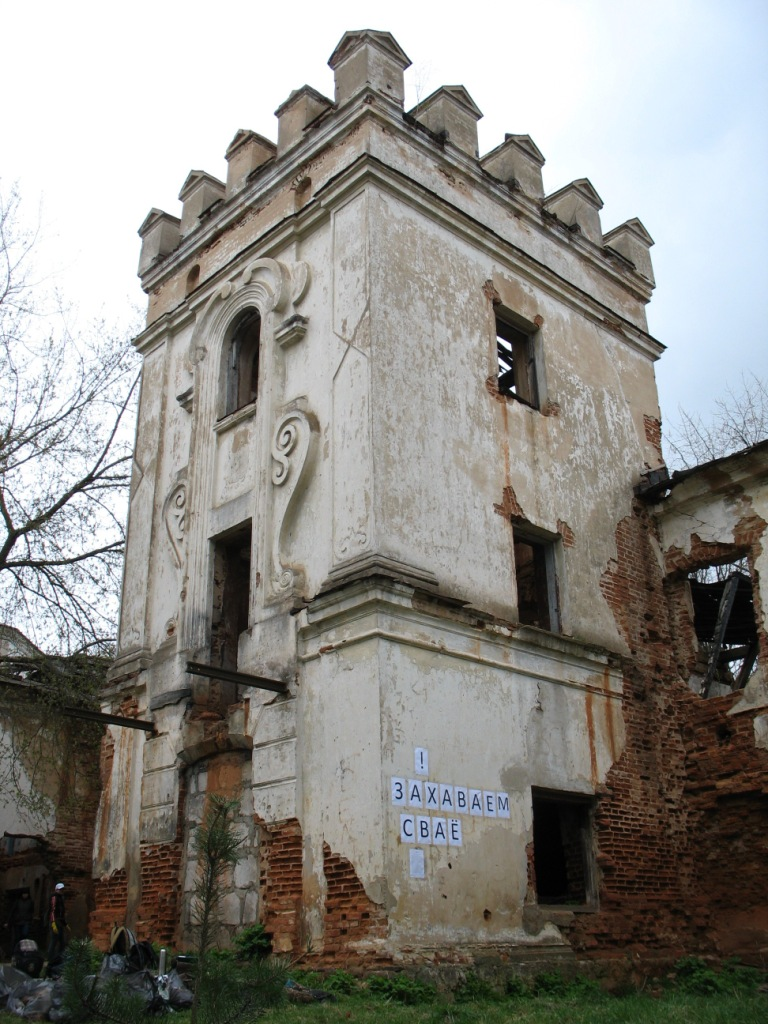 Manor of Maniuszka, Smilaviczy, Bielarus